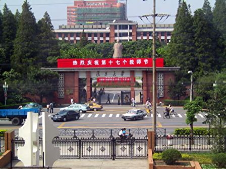 Fudan University, Shanghai, China.